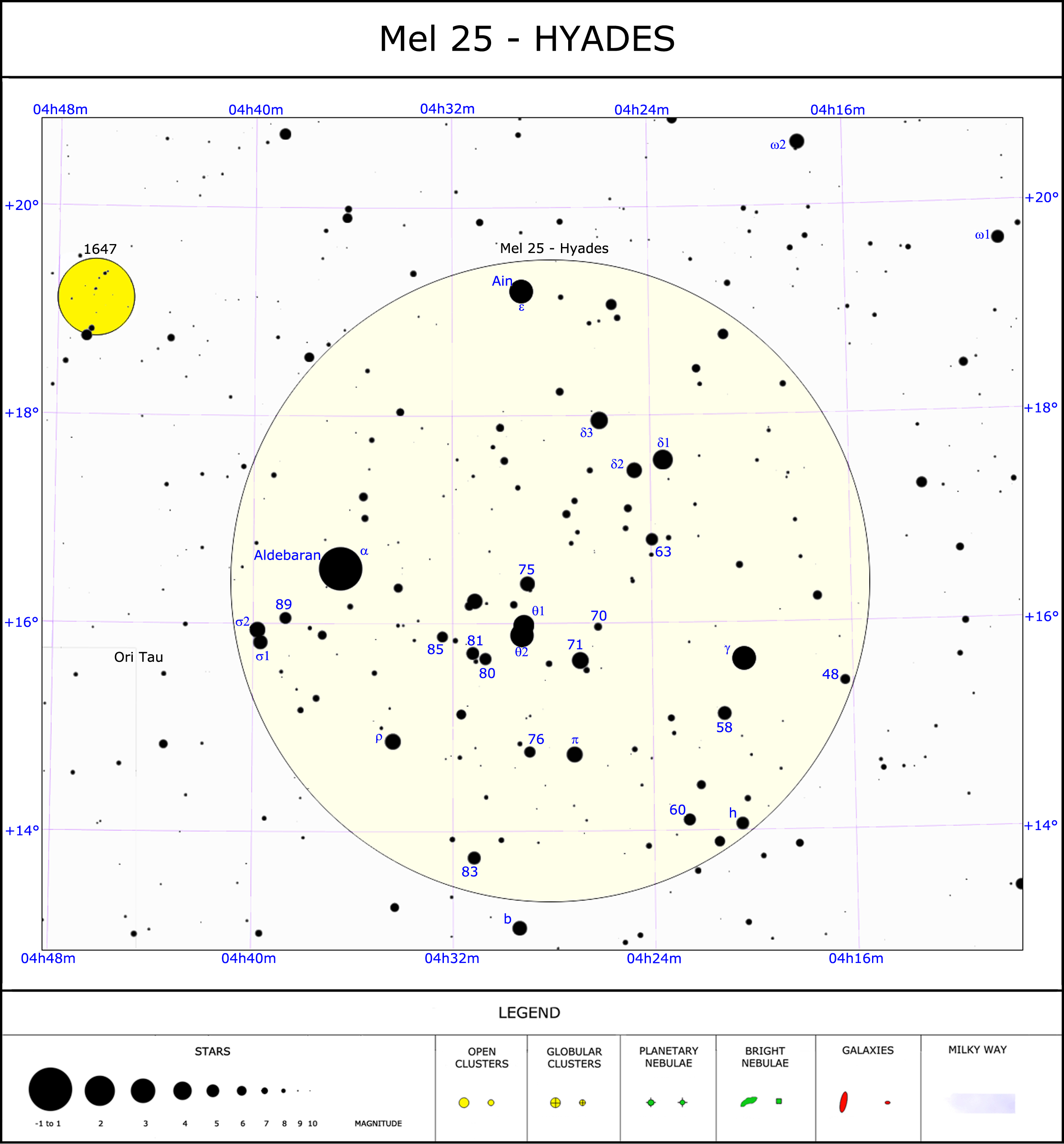 Map of the Hyades cluster from a southern perspective.